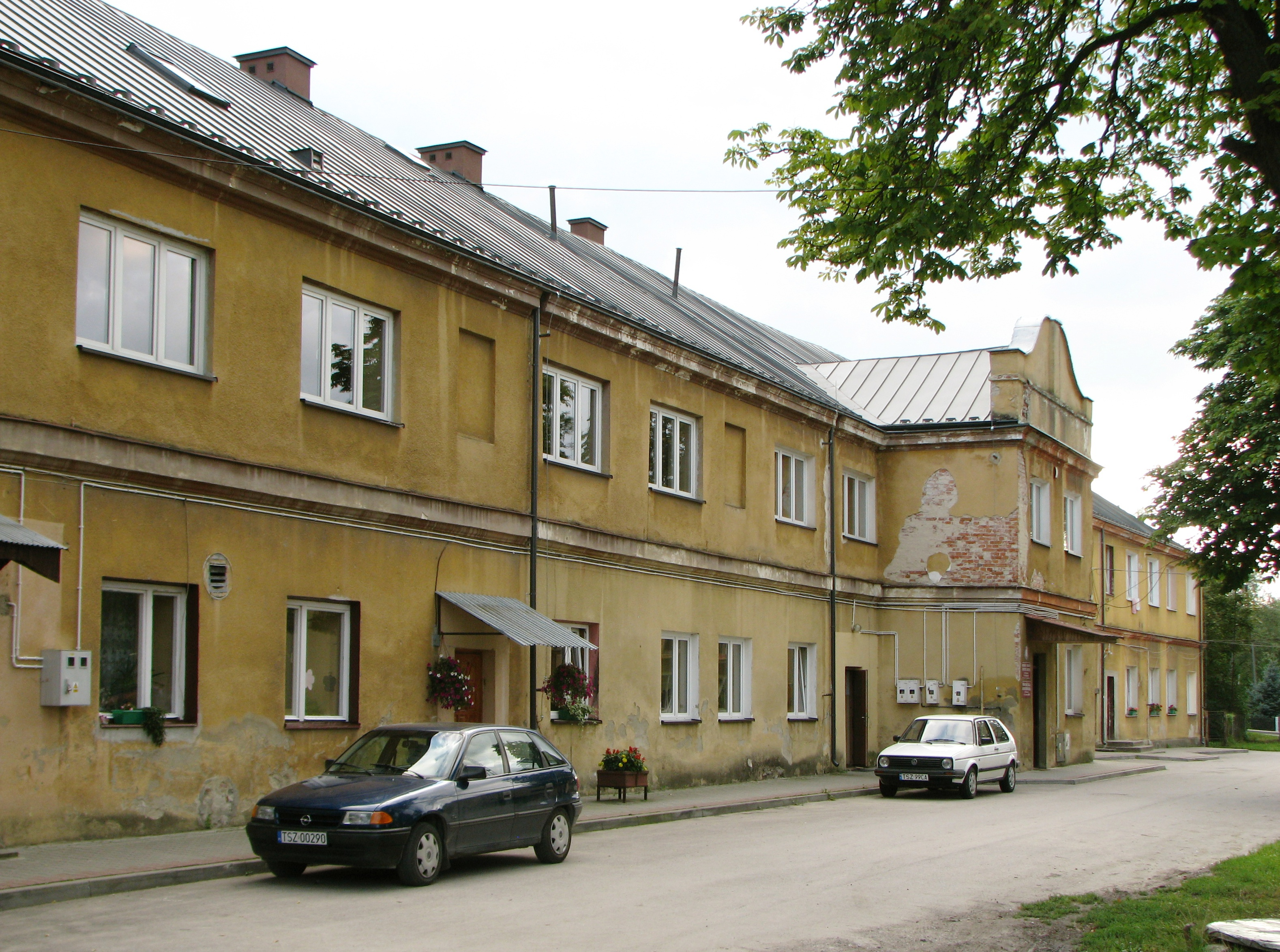 Building of former Saint Adam Hospital in Staszów, Poland.